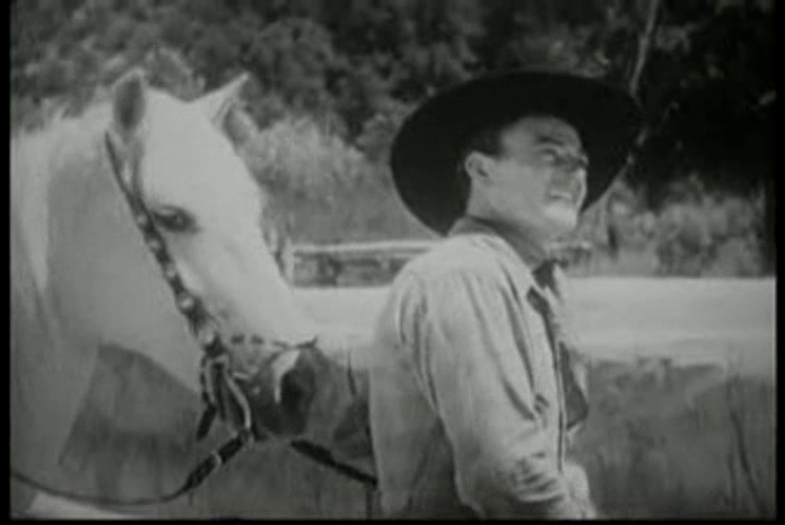 John Wayne in Randy Rides Alone, a 1934 film by Harry L. Fraser